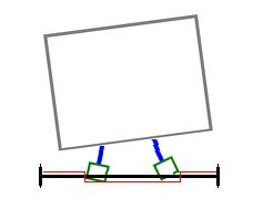 A sketch of the tilting mechanism. Based on description and sketch present on : but enterly own drawing.